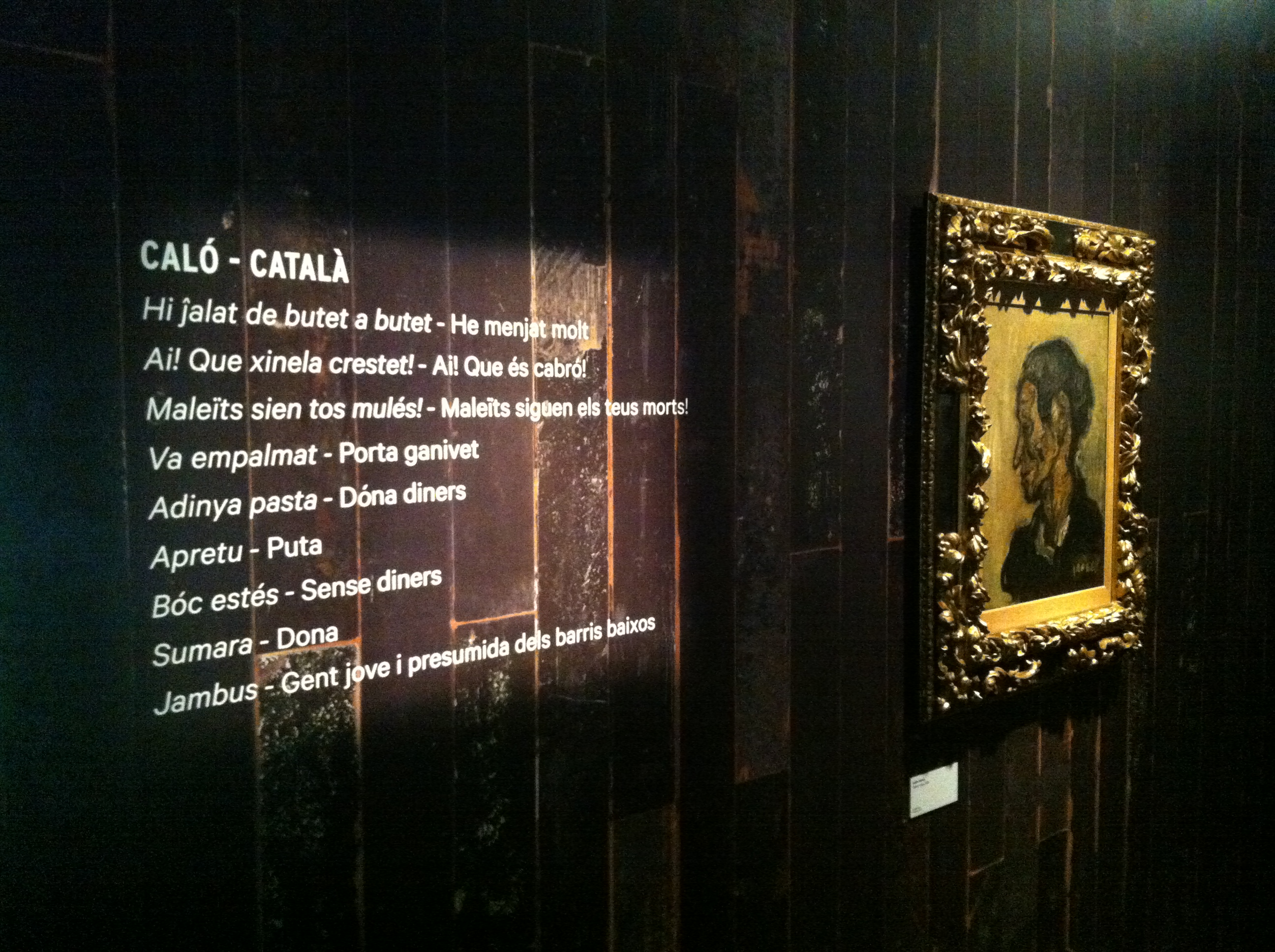 Pictures of an exhibit about The Paral·lel avenue in Barcelona that took place in CCCB cultural center between october 2012 and feb 2013. El Paral·lel emerges from the project to extend the city designed by Ildefons Cerdà. From its birth, a series of contradictory urban planning regulations facilitated the appearance of ephemeral buildings and the conversion of this street into a dense area of leisure and entertainment. The result was a leisure district for the masses, perfectly comparable to those existing in other major European urban agglomerations at that time, but that immediately became a genuine cultural expression of the social and political conflict that characterised the Barcelona of the early 20th century. El Paral·lel generated shows with perfectly differentiated contents and formats, made up by the audience and the artists. This exhibition will explain, therefore, why a new entertainment area emerged in the city, leading the weight of the theatrical axis to move from the Plaça Catalunya-Passeig de Gràcia area to the Nou de la Rambla-Paral·lel area.